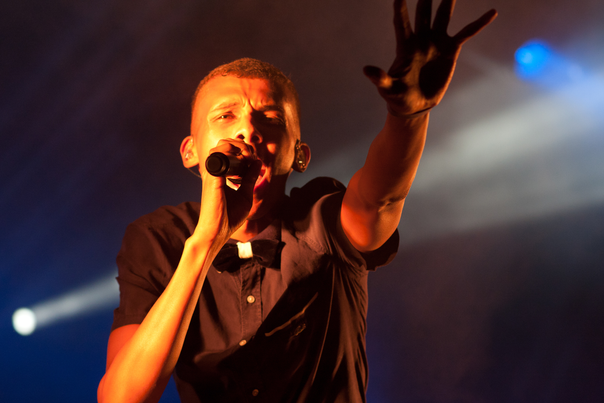 Follow me on facebook Twitter : @didyPhotography All the photographies I've made are now under CC0 (Creative Commons Zero) CC0 - learn more To the extent possible under law, Eddy BERTHIER has waived all copyright and related or neighboring rights to Stromae @ BSF 2011. This work is published from: France.